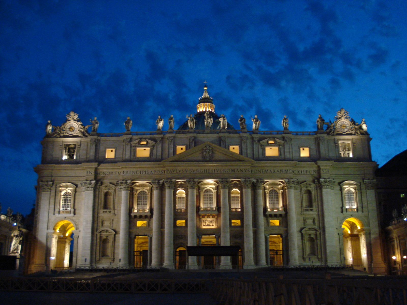 Image of Saint Peter's Basilica in Rome, Italy, taken around dusk on July 6th, 2006 from Saint Peter's Square.